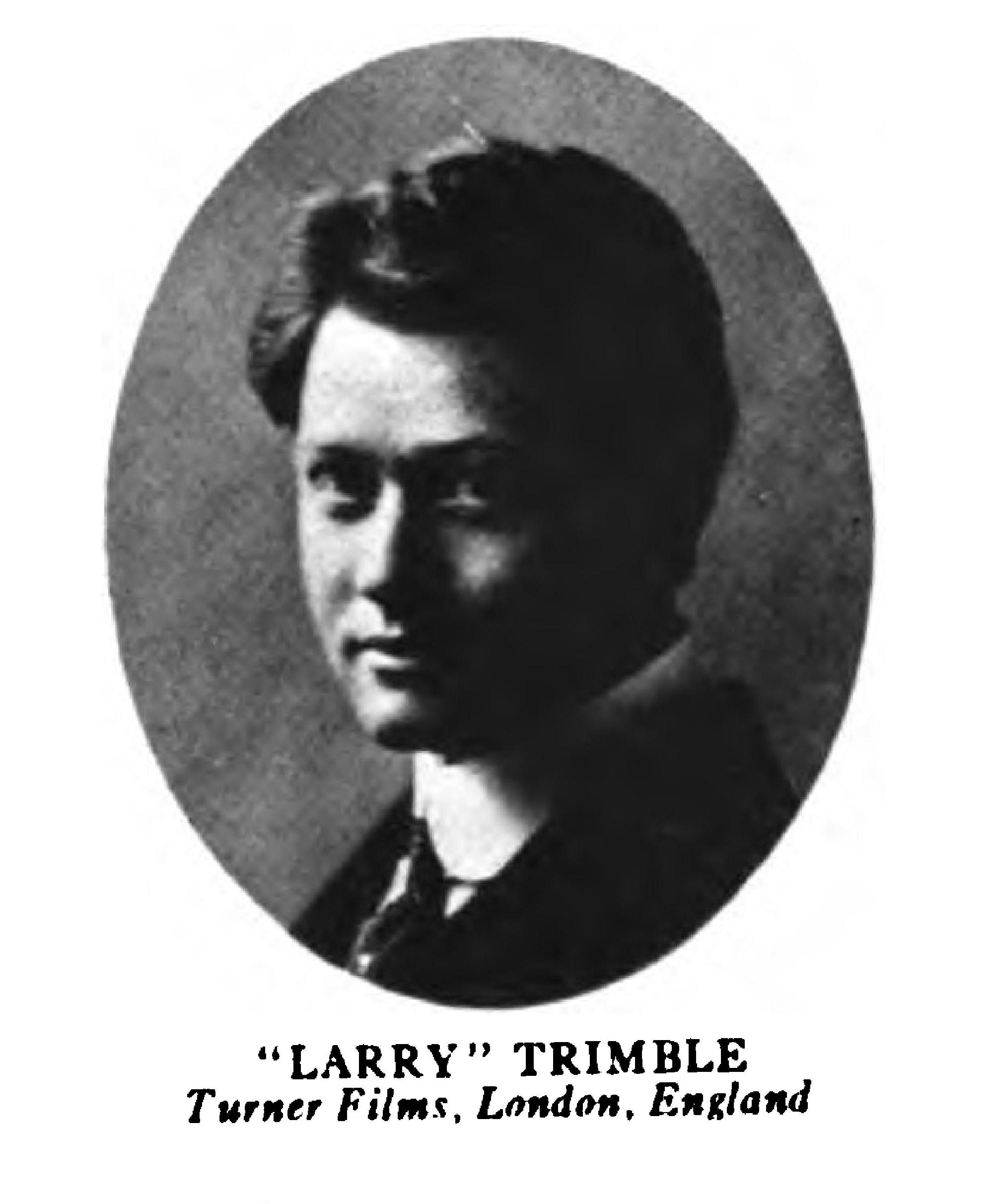 Laurence Trimble (February 15, 1885 – February 8, 1954) was an American silent film actor, writer and director